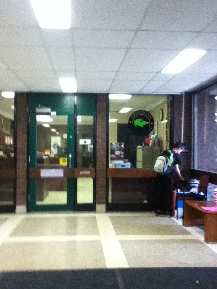 Office